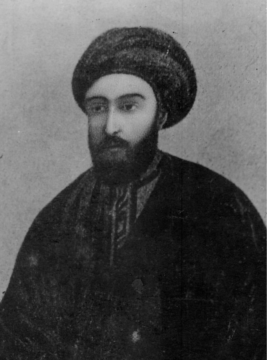 Bábism founder The Báb.